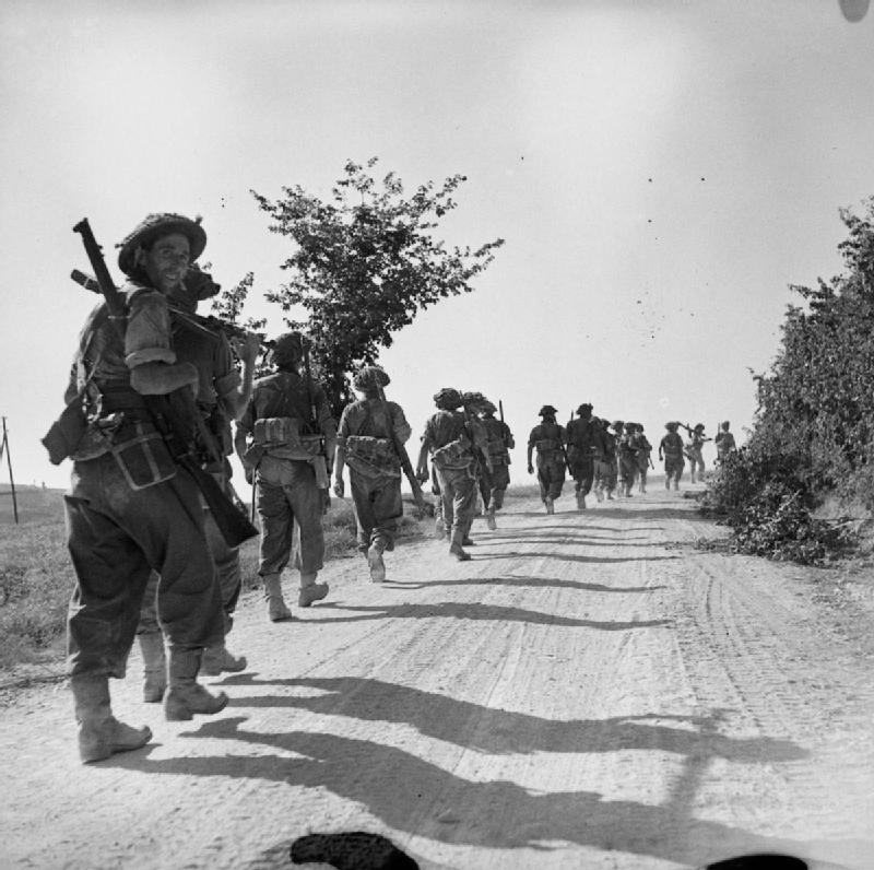 The British Army in Italy 1944 Troops from the 2nd Hampshire Regiment move up to their last objective before the Gothic Line, 27 August 1944.